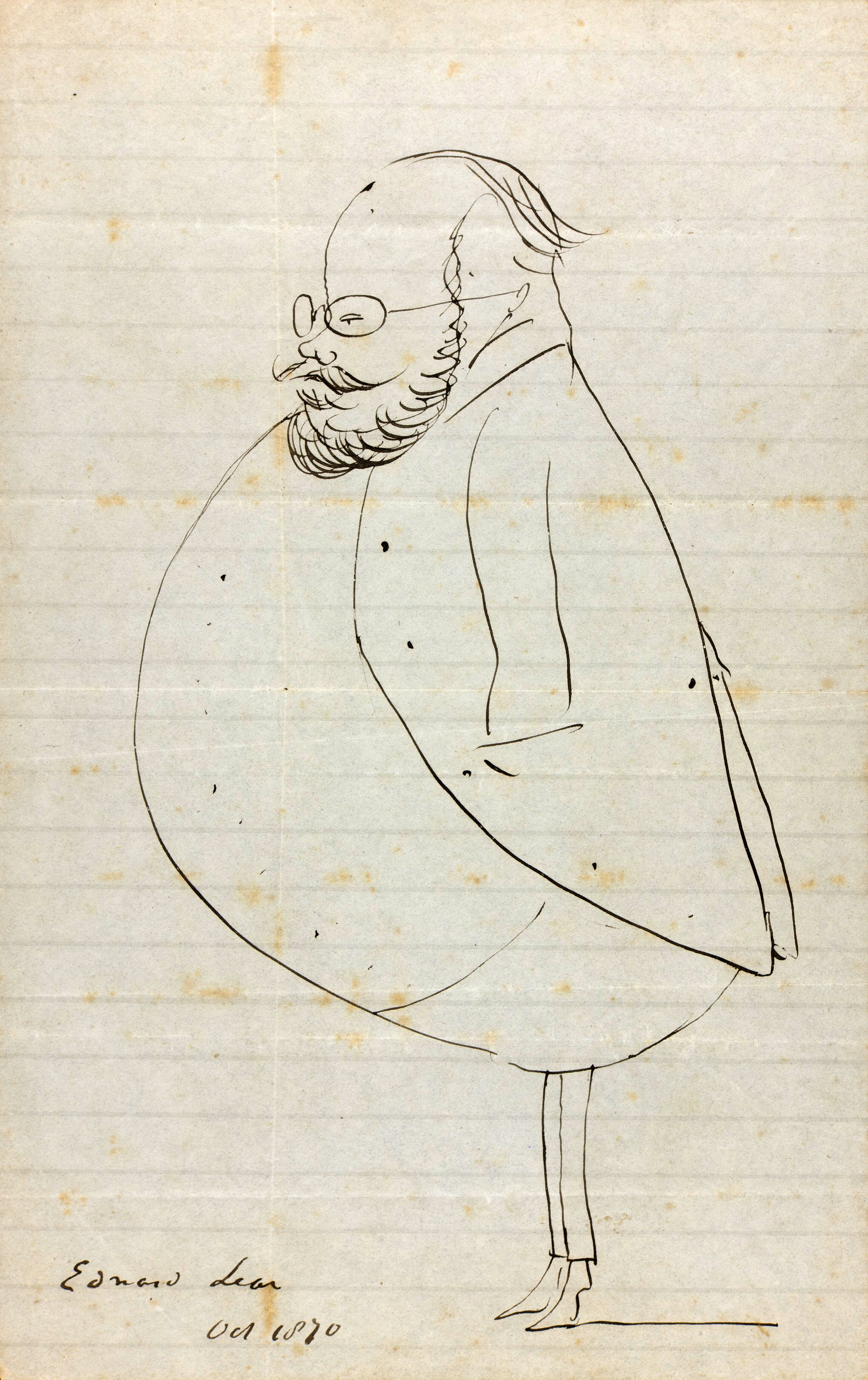 Self-caricature in profile, standing